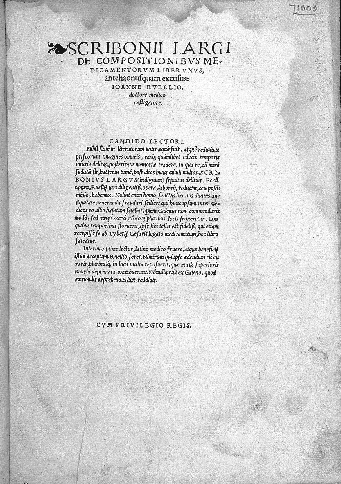 Title page Rare Books